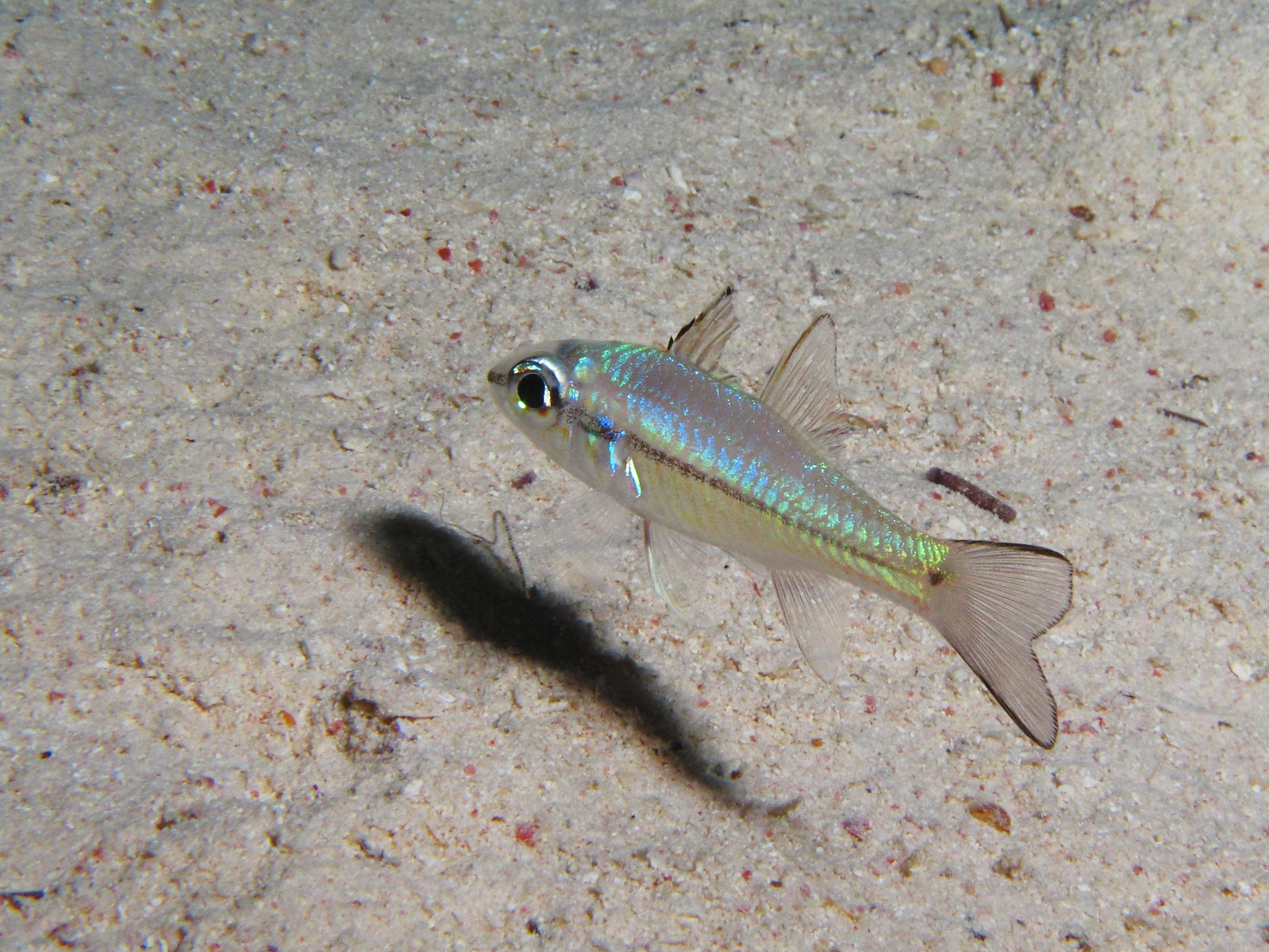 Eyeshadow cardinal fish (Pristiapogon exostigma) at Shaab Mahmud (Red Sea, Egypt)